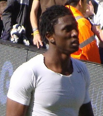 Dickson Etuhu